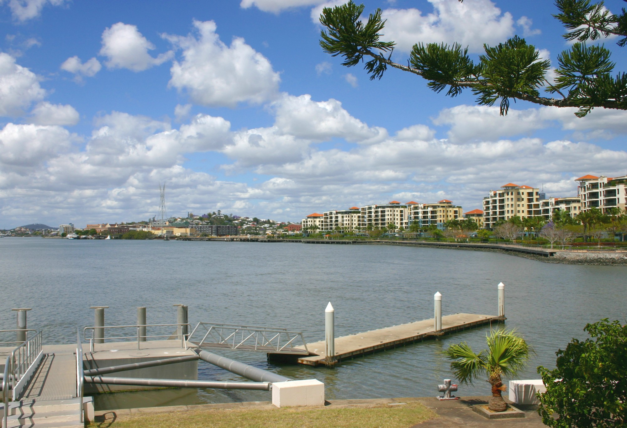 Description: The eastern side of the suburb of Newstead along the Brisbane River in Brisbane Australia. Taken from the grounds of Newstead House. Photographer: Troy Thomas. Date: 12 October 2006